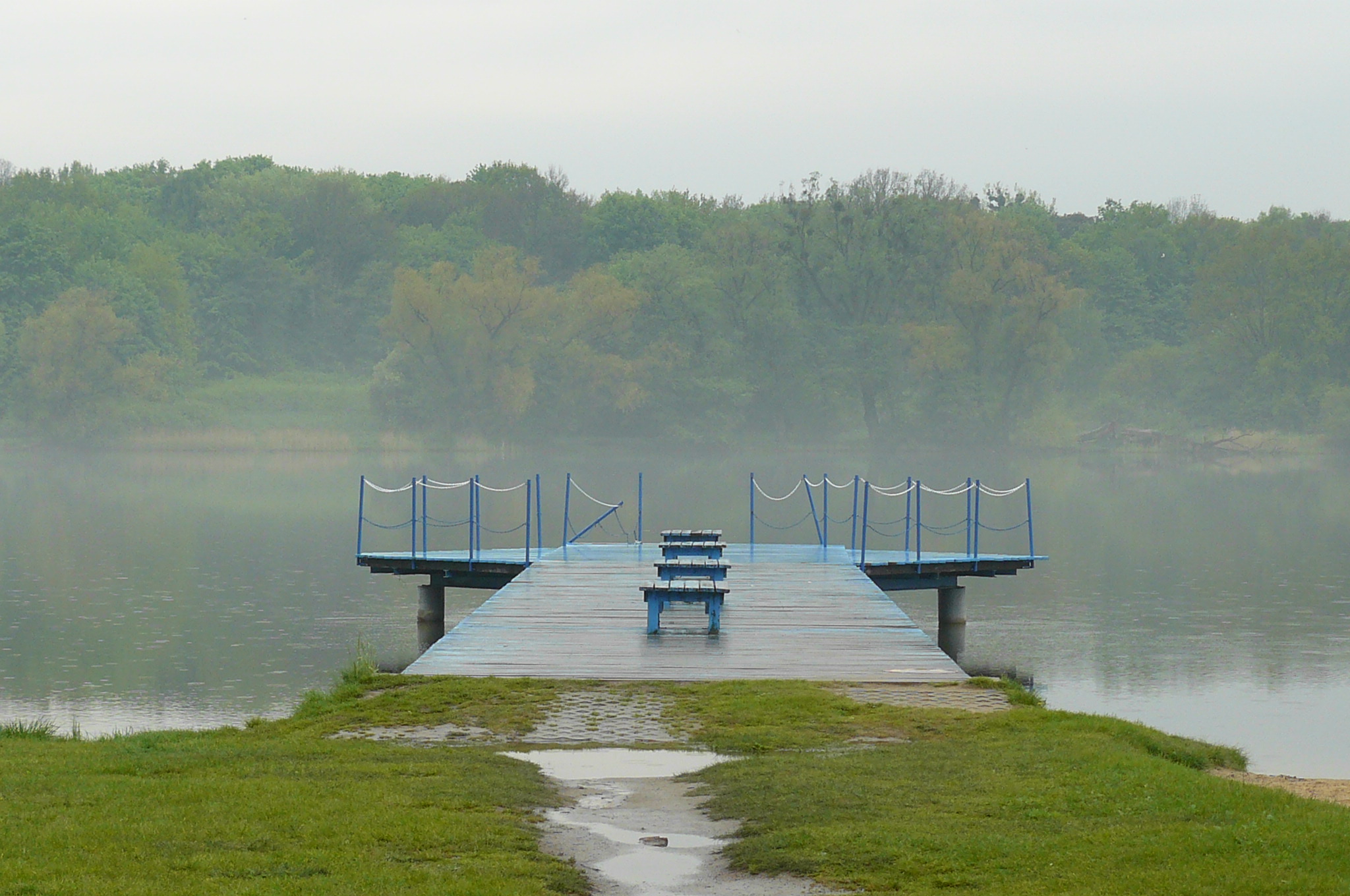 Rusalka Lake, Poznan.